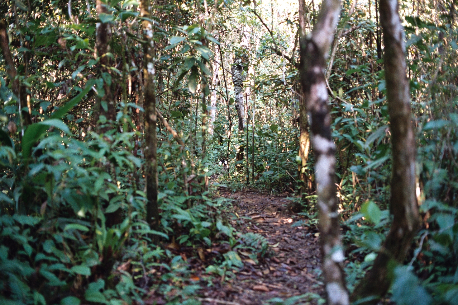 Forest around the MLC